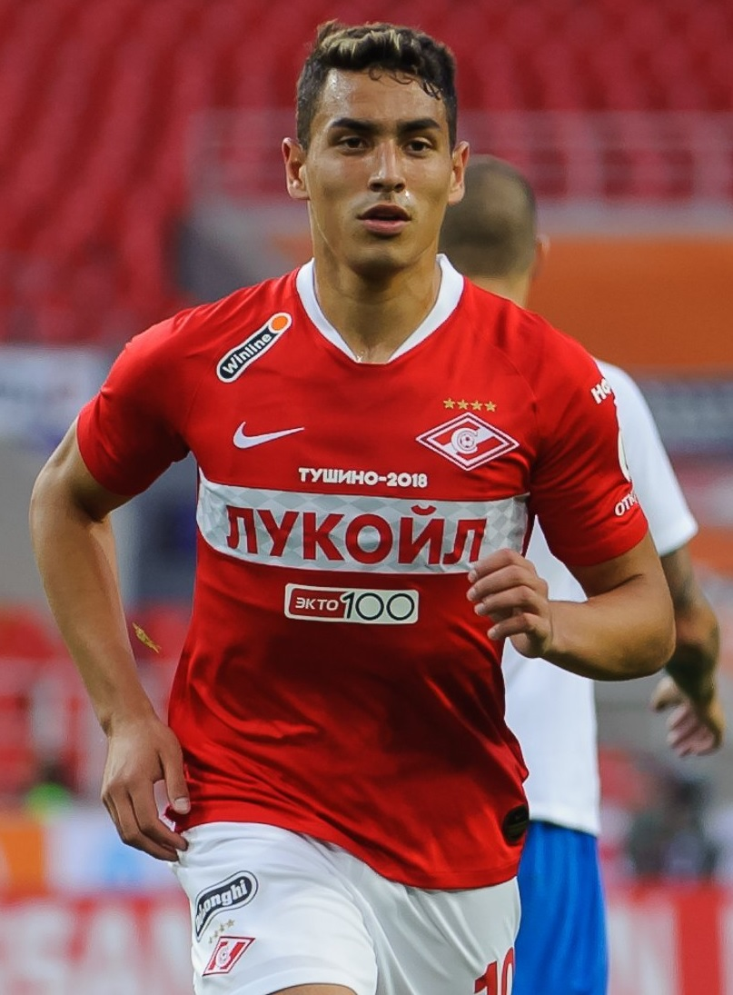 Ezequiel Ponce with FC Spartak Moscow in a game against PFC Sochi.